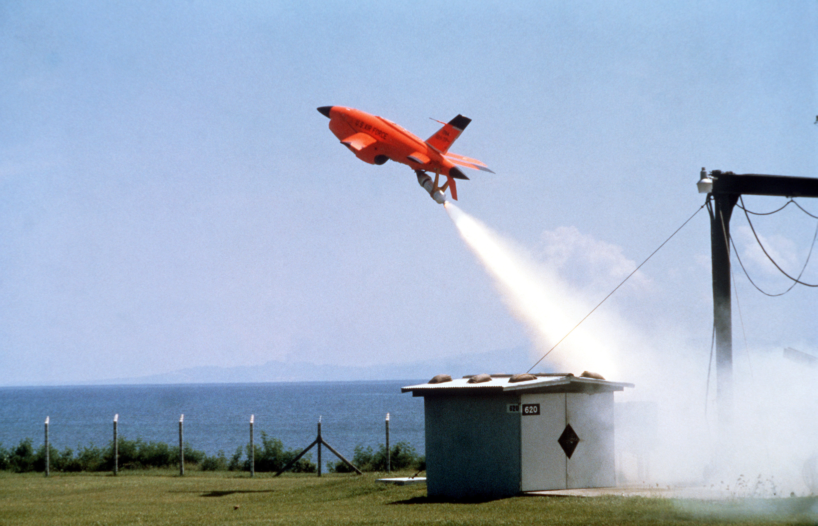 A BQM-34A Firebee I target drone is launched by members of the 1st Test Squadron. The drones are recovered by the 31st Aerospace Rescue and Recovery Squadron for re-use in training Pacific Air Force combat aircrew members. Airman Magazine-December 1984.